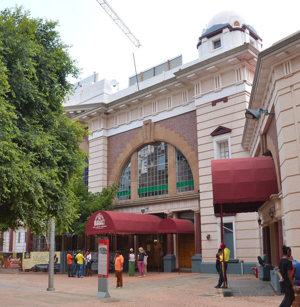 Market Theatre in Johannesburg, South Africa